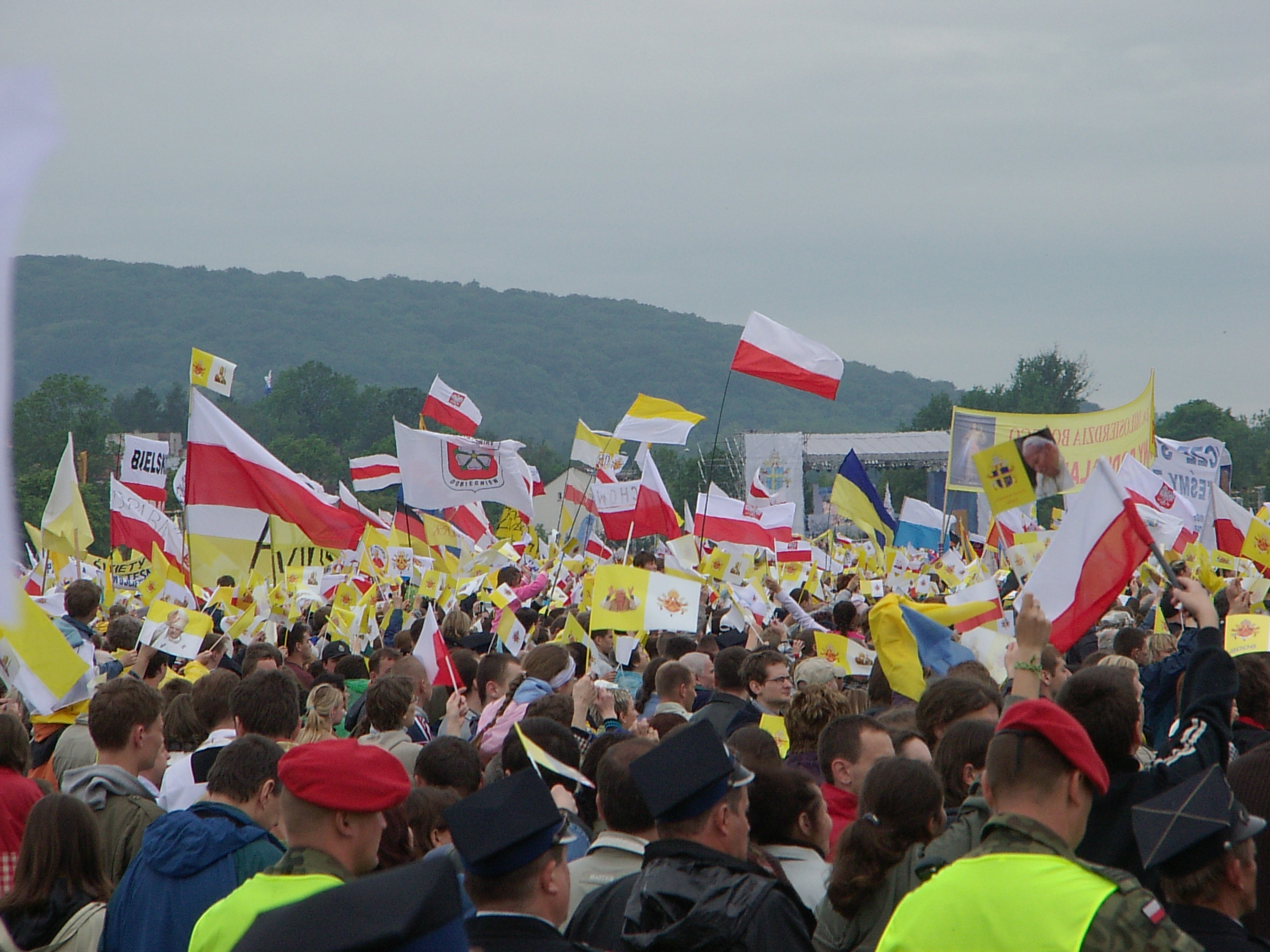 Piligrims on Błonia